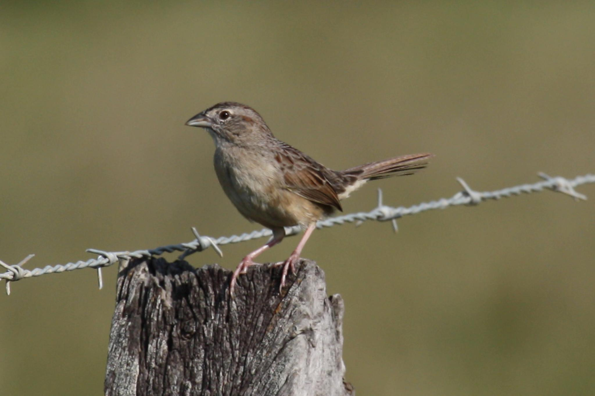 Botteri's Sparrow Aimophila botterii, Mexico